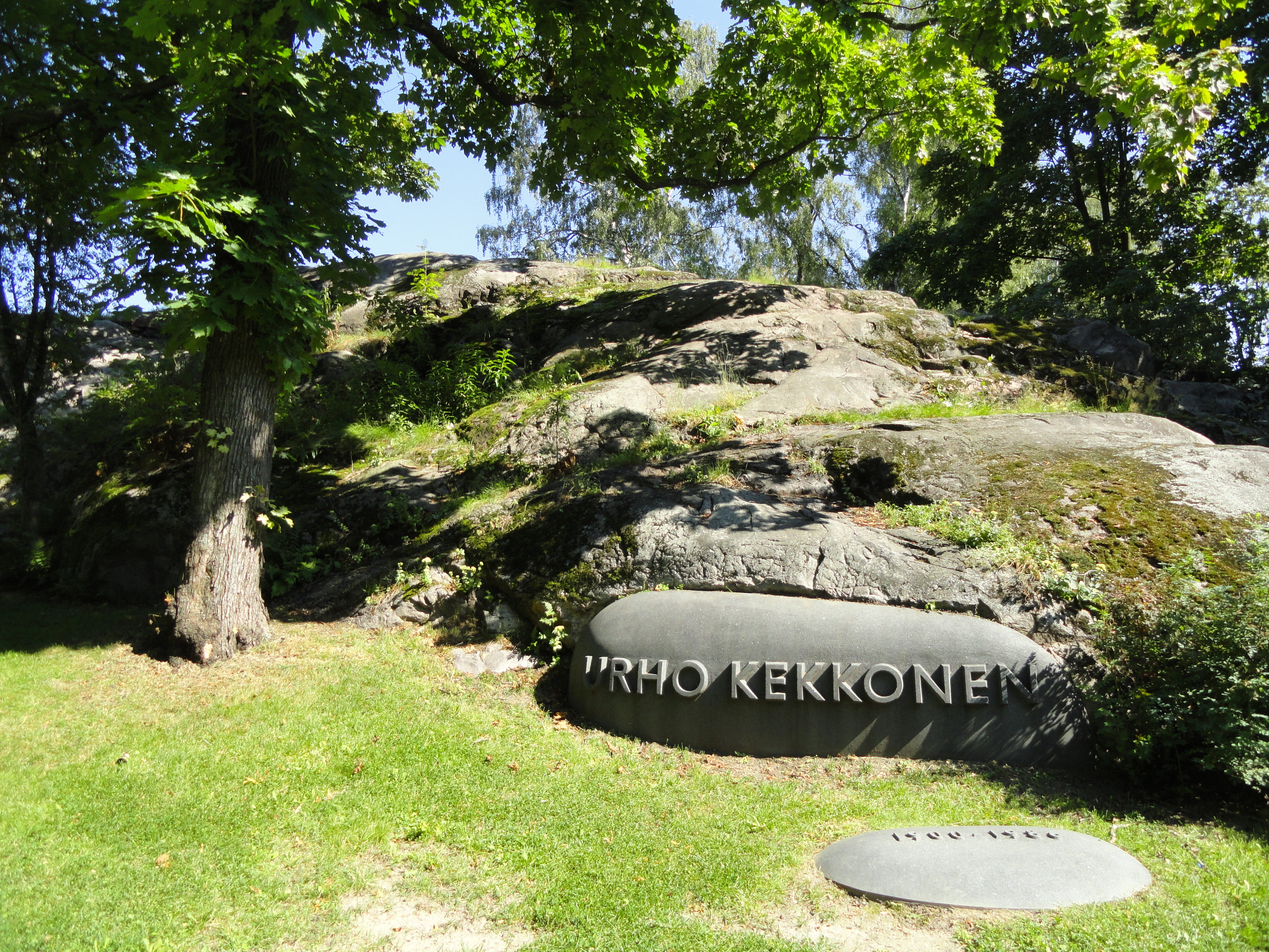 Hesperian puisto, on Töölönlahti bay, Helsinki, Finland.